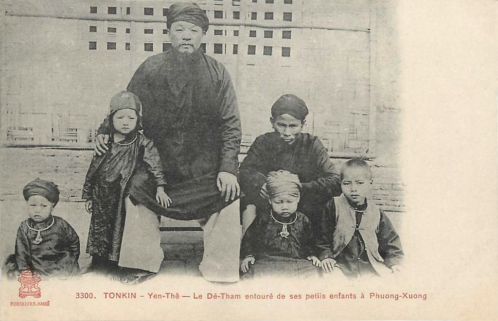 Old postcard (c. 1900-1910) showing Dé-Thám - the leader of the Vietnamese national resistance movement in Tonkin - together with his grand-children